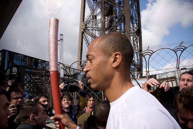 olympic-torch-diagana